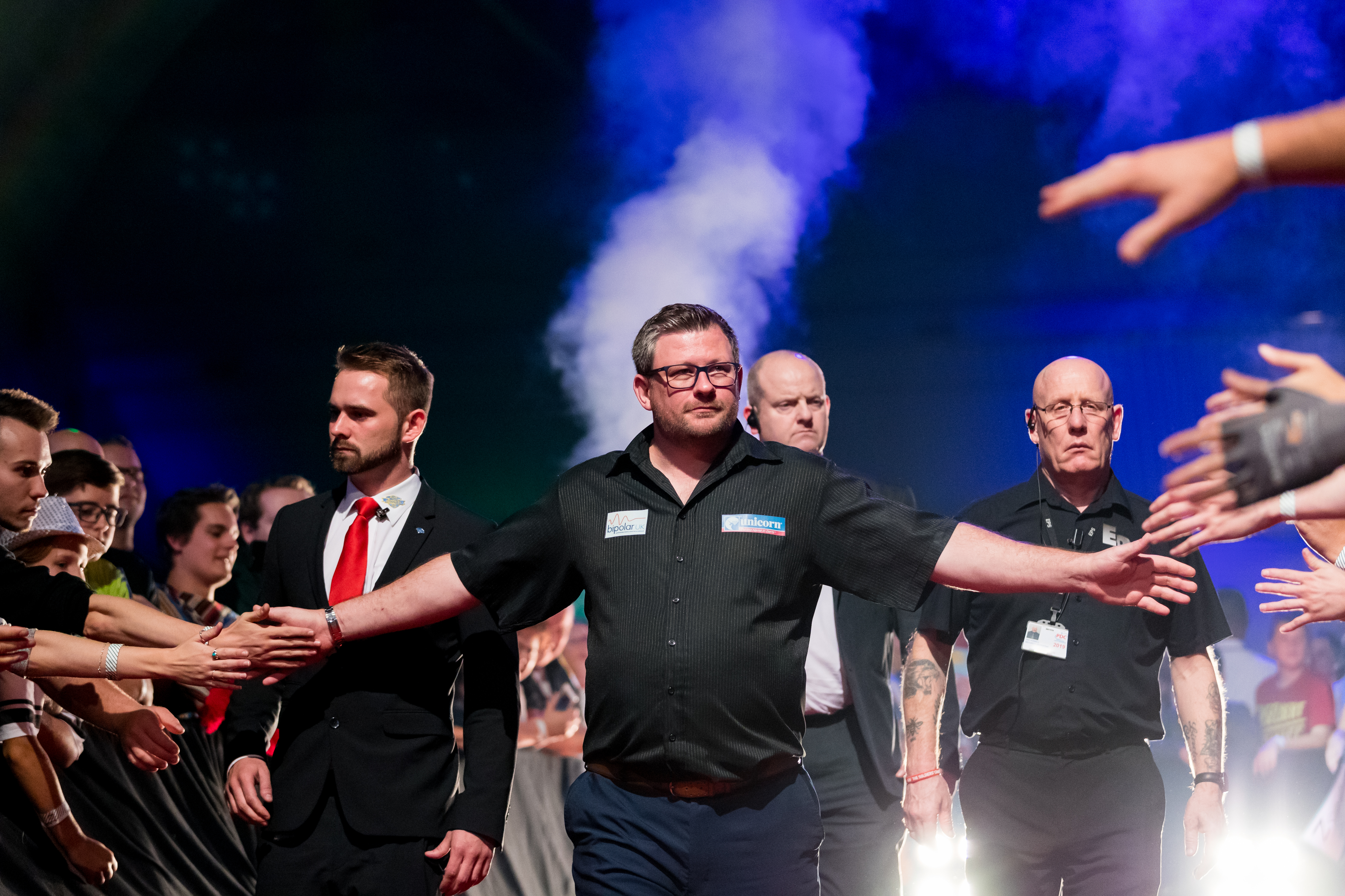 James Wade 5:7 Joe Cullen during PDC Europe Darts Matchplay at Maimarkthalle, Mannheim, Baden-Württemberg, Germany on 2019-09-08, Photo: Sven Mandel